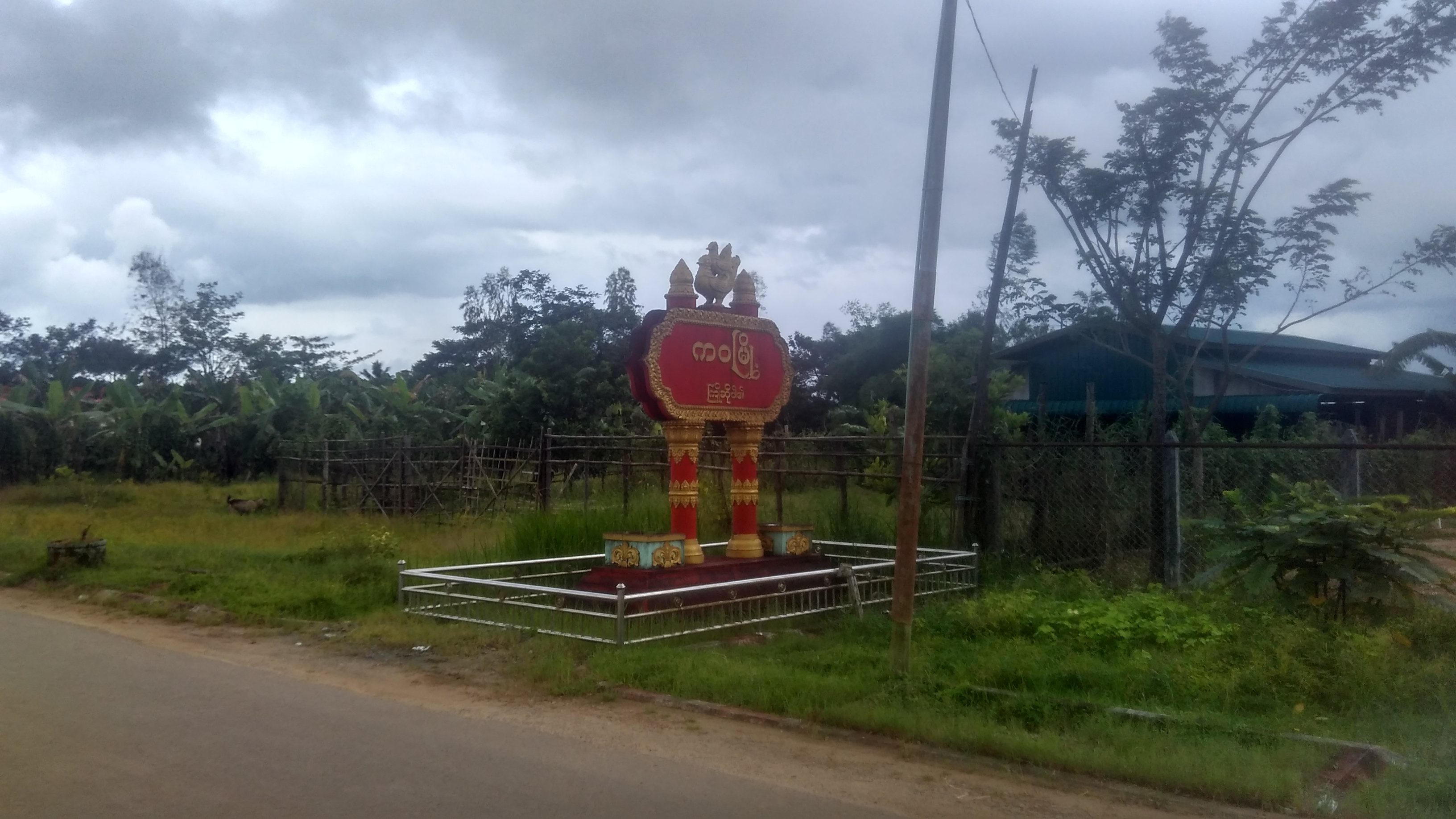 Kawa Township မြန်မာဘာသာ: ကဝမြို့၊ ပဲခူးတိုင်းဒေသကြီး။